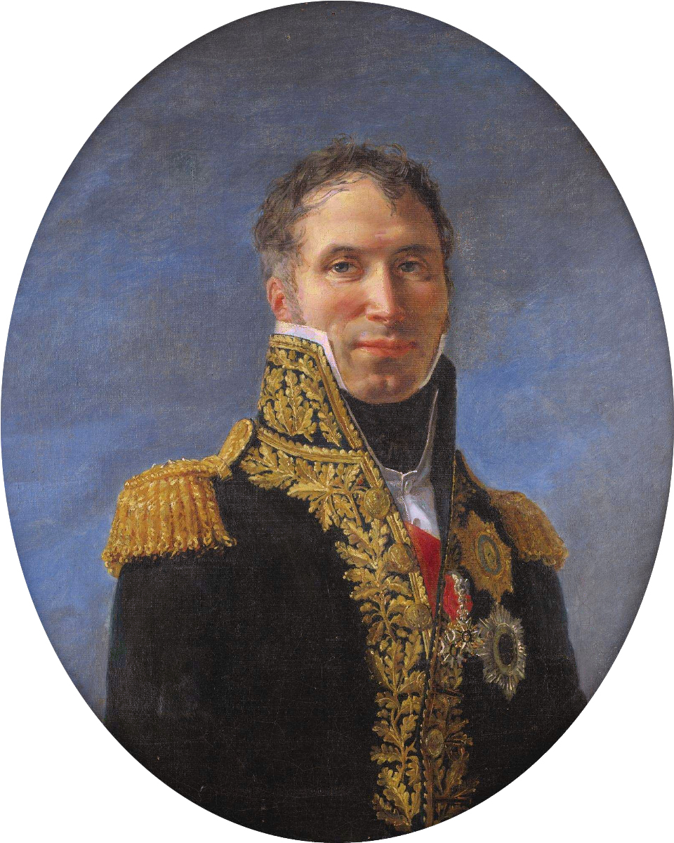 General Claude Carra de Saint-Cyr (1756-1834) oil on canvas 73.7 x 59 cm